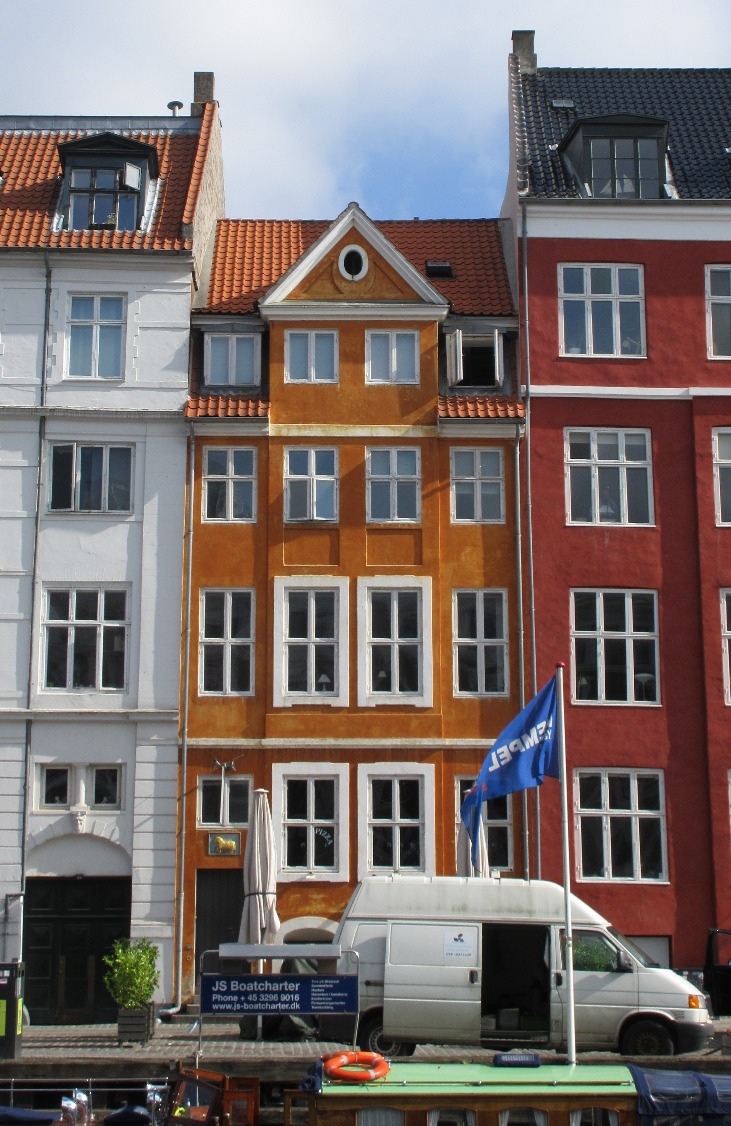 Nyhavn 51 in Copenhagen, Denmark